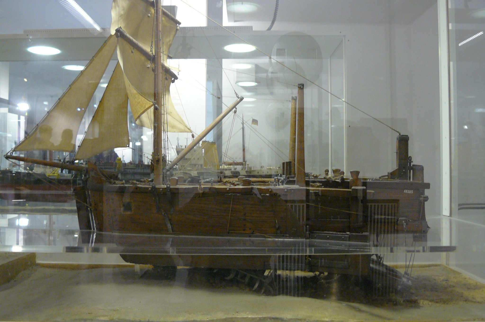 Scraper or silt plough seen in Deutsches Museum, Muenchen, Germany. April 2012